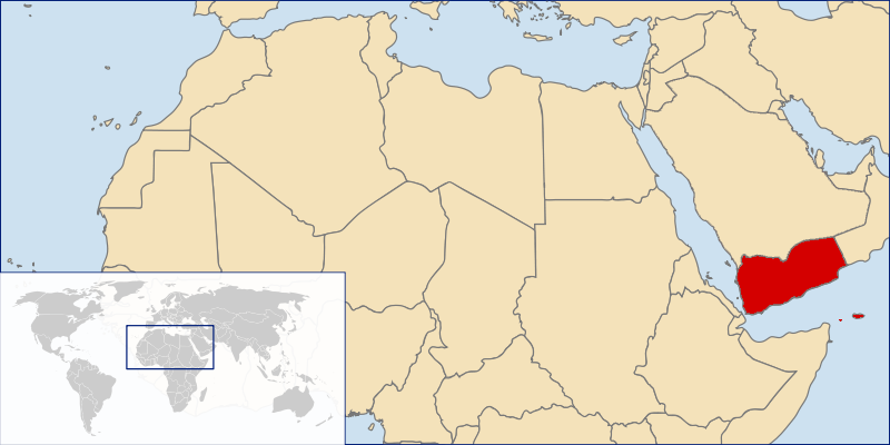 Map of Arabia and Northern Africa with Yemen's location highlighted